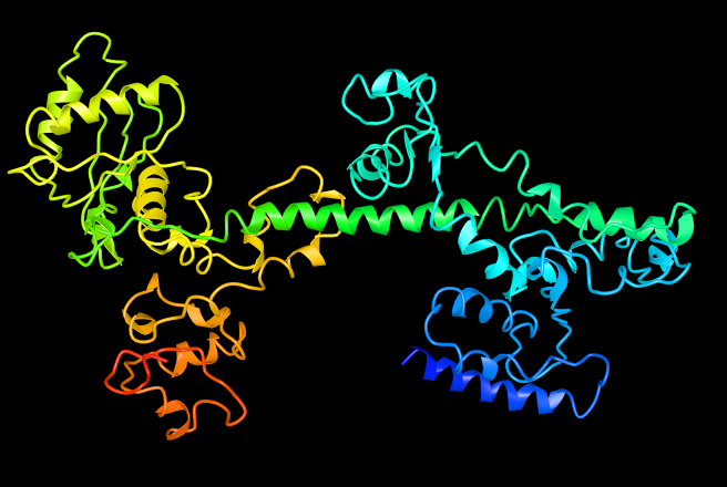 This is 3D computer-generated model of the human protein C8orf34, constructed with the program I-TASSER.